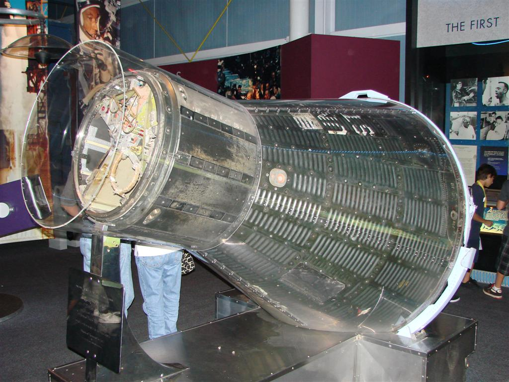 Mercury Sigma 7 spacecraft on display at the Astronaut Hall of Fame, Titusville, Florida, September 21, 2007.